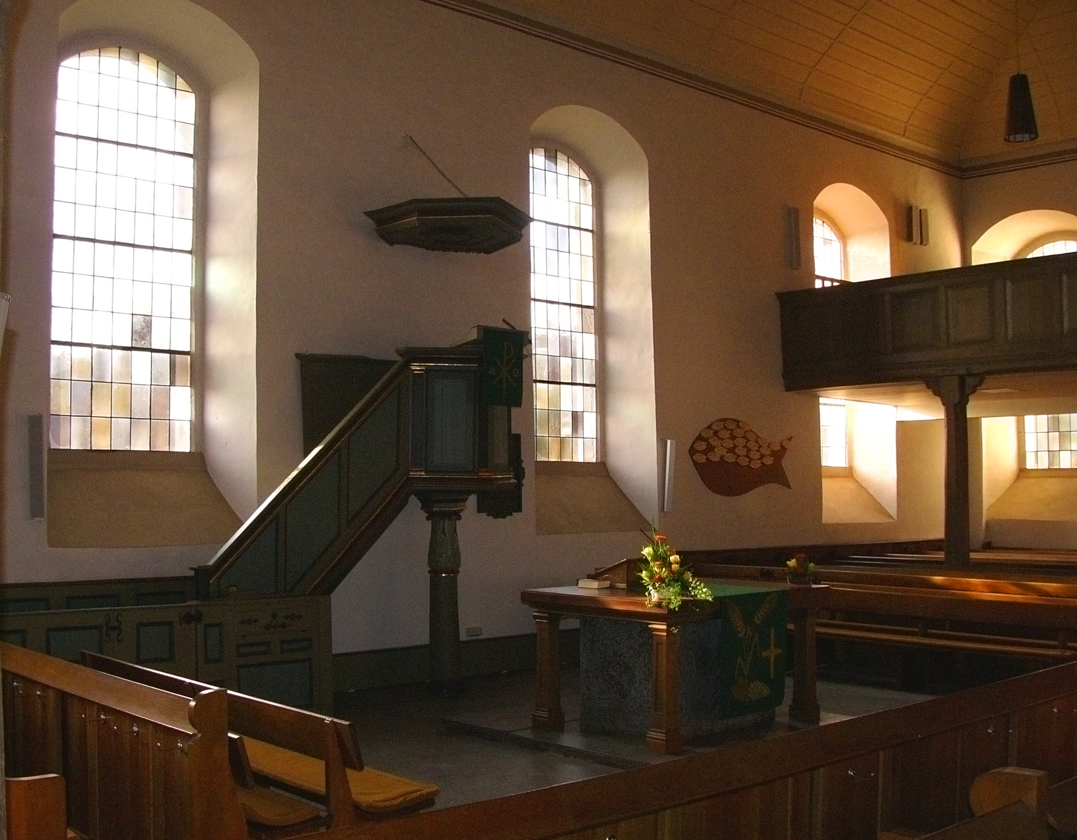 Church in Stapelage, Germany, interior view